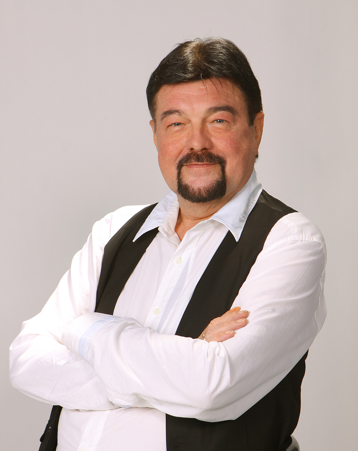 Photographer Philippe Poppe; portrait picture of Guido T. Poppe, 2011.